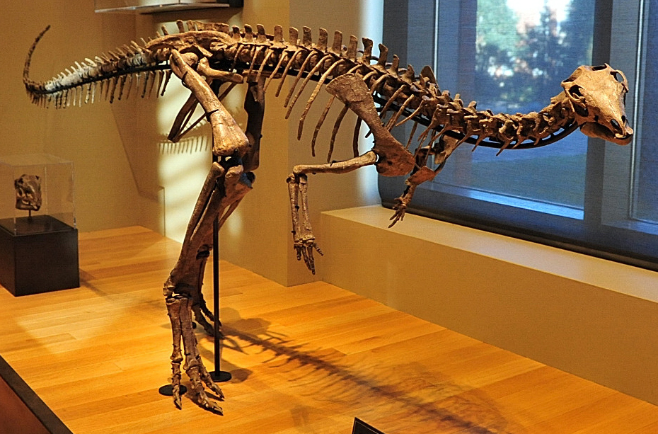 Beneski Museum of Natural History Dryosaurus altus